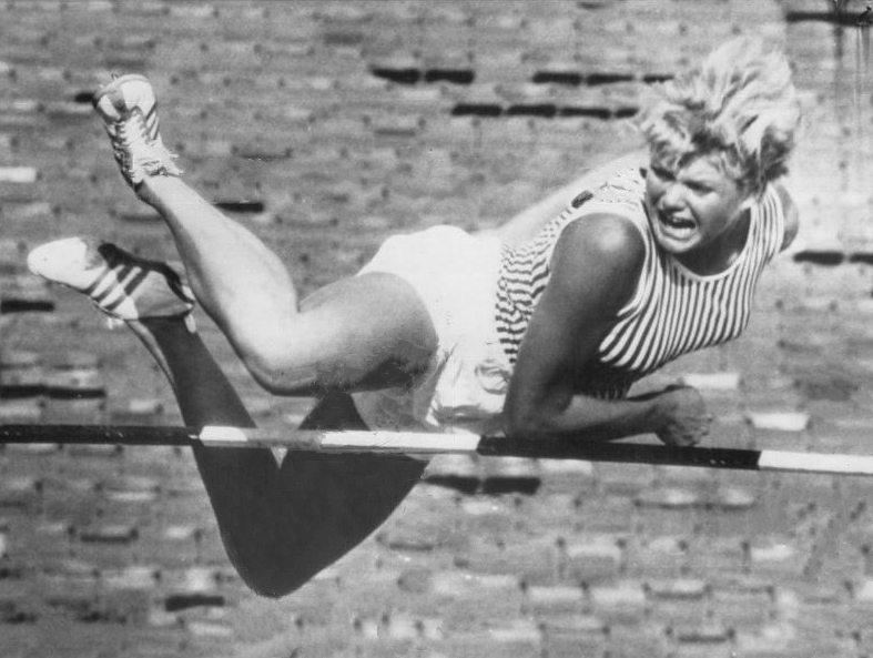 1964 Press Photo Women's Olympic high jumper Pat Winslow